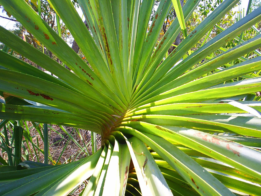 Pandanus spiralis, Northern Territory, Australia